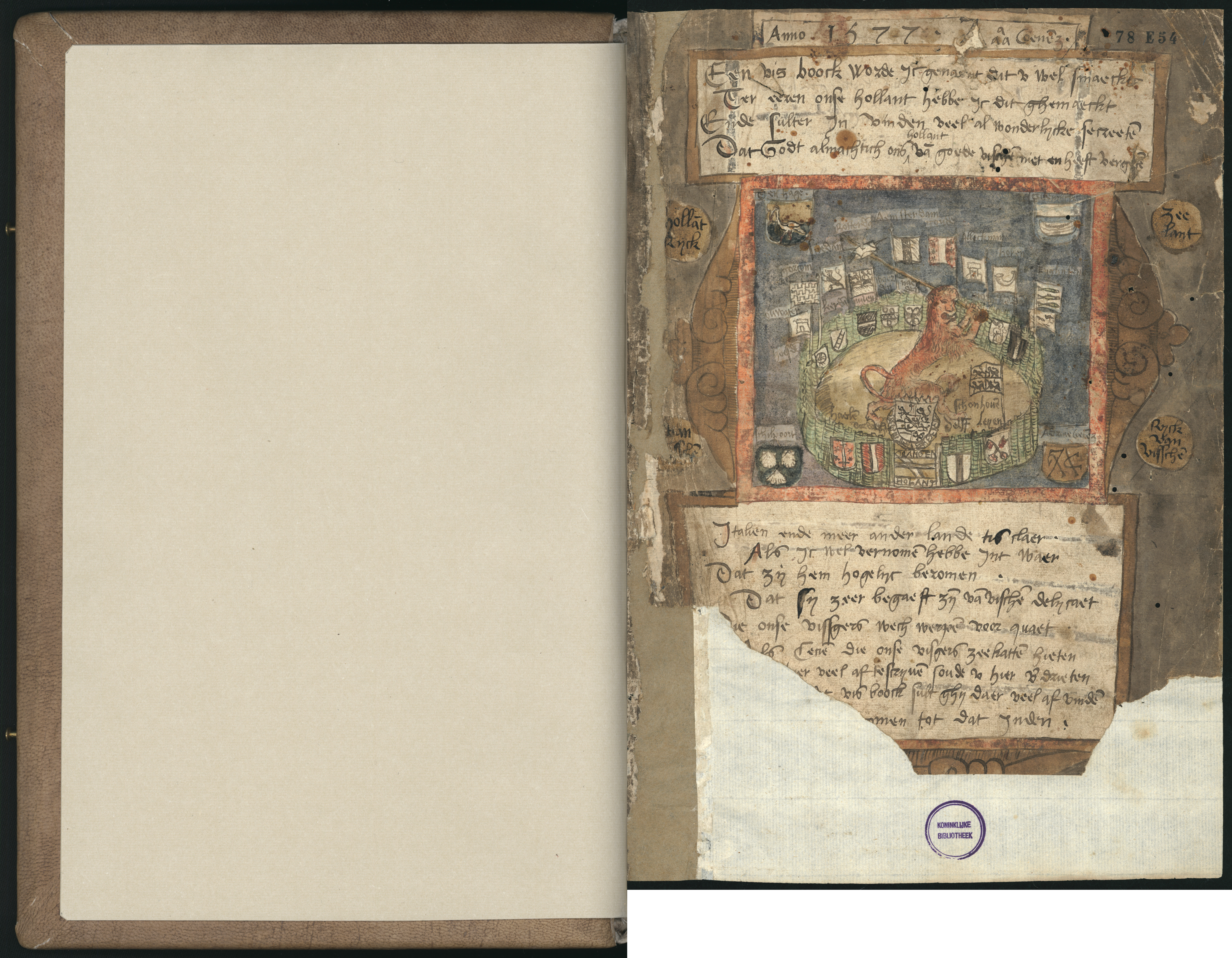 Folio 001r from the Visboeck by Adriaen Coenen